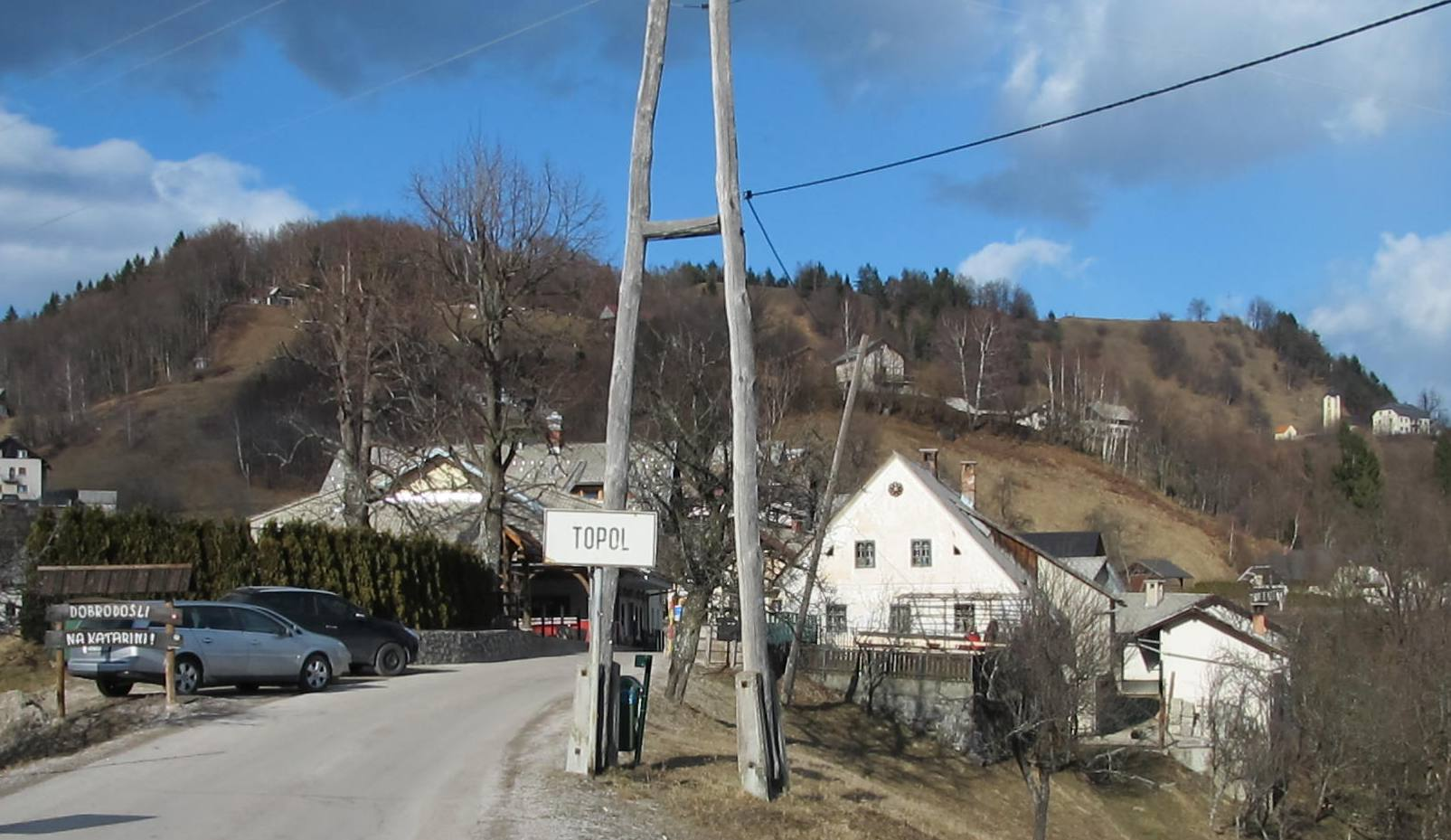 Topol pri Medvodah, Municipality of Medvode, Slovenia. The pre-1955 name Katarina (nad Medvodami) is visible at left, and the official name Topol (pri Medvodah) at right.